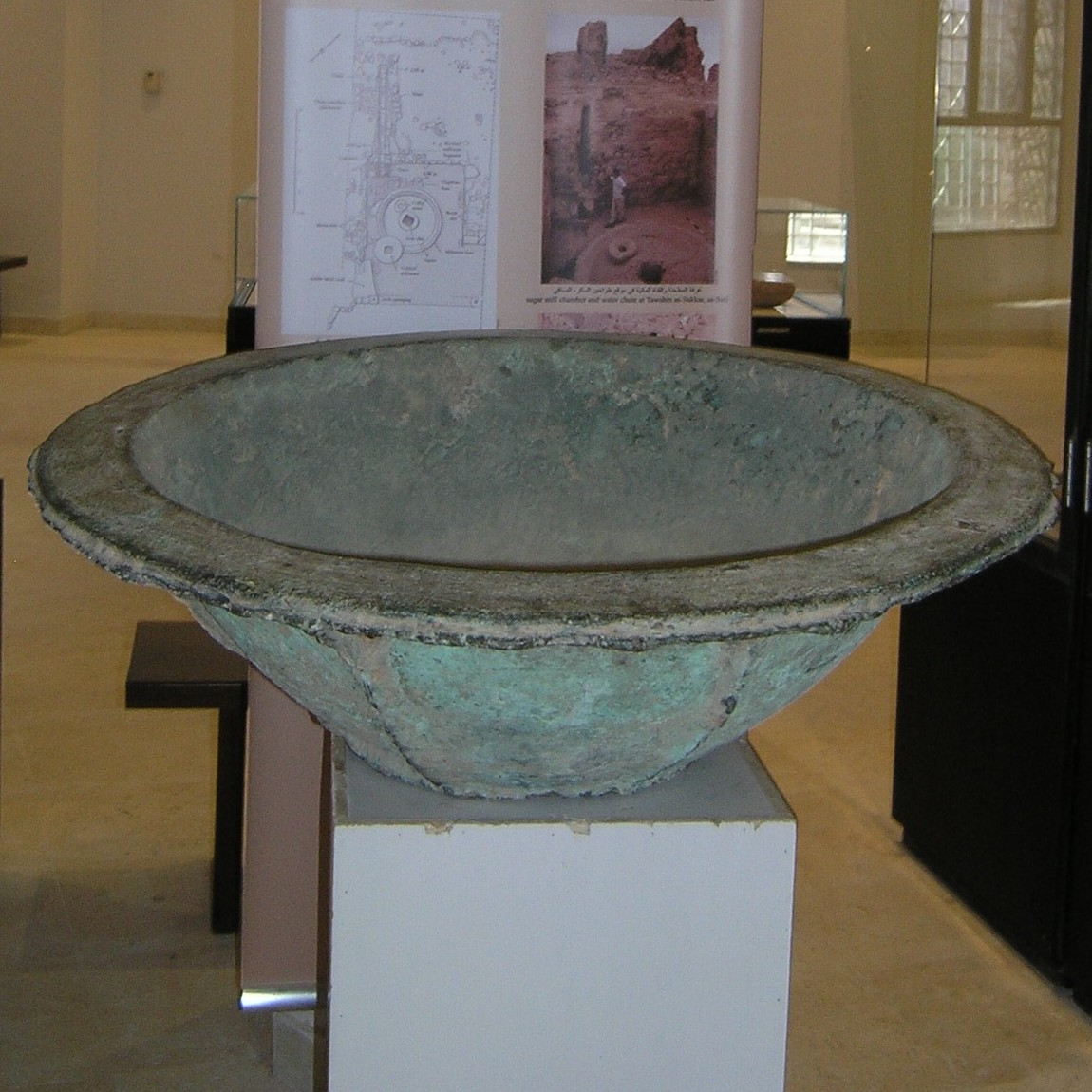 Bronce vessel for sugar production, Museum at the Lowest Place on Earth (MuLPE), Jordan